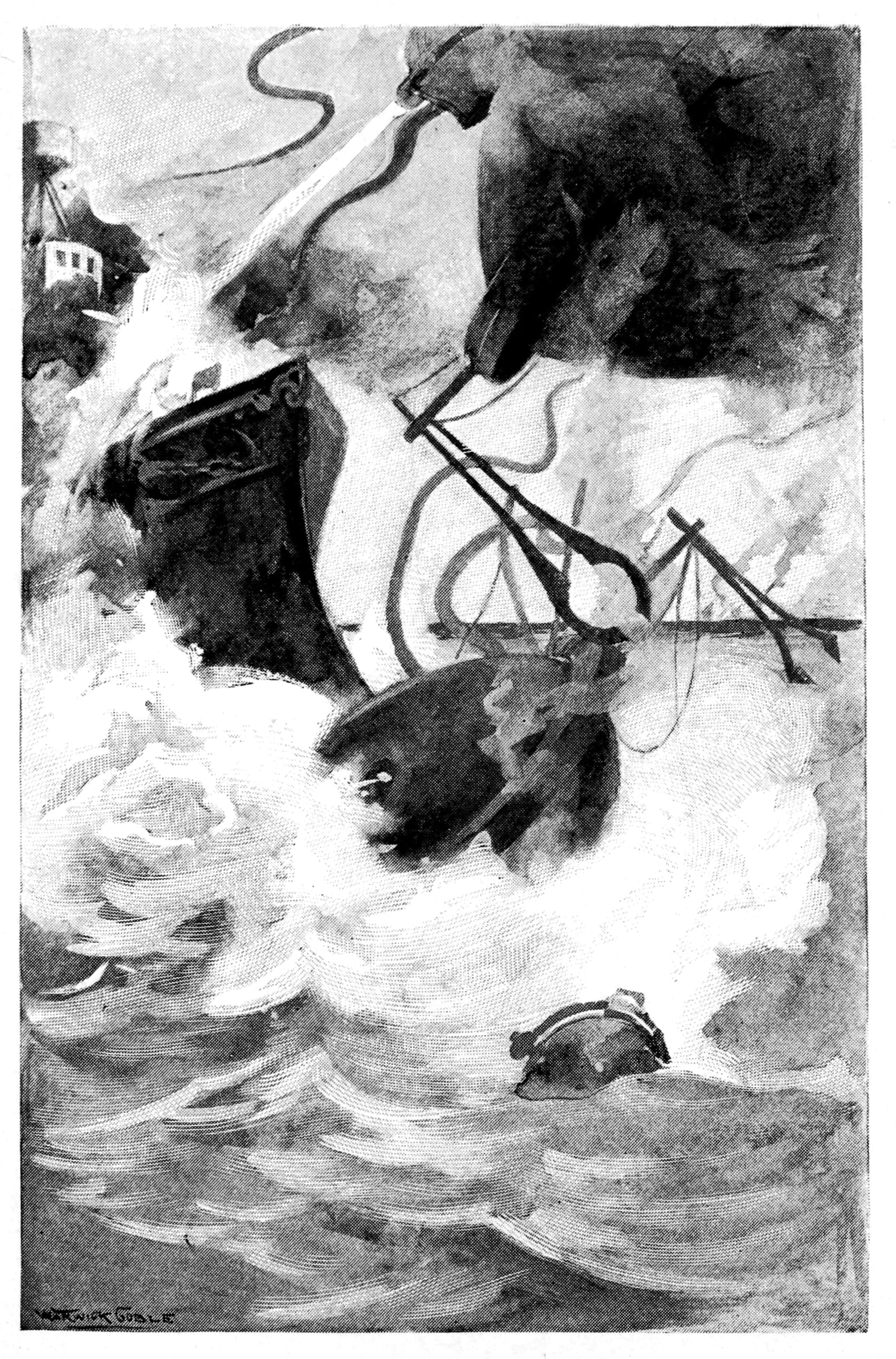 pg 207 of War of the Worlds.